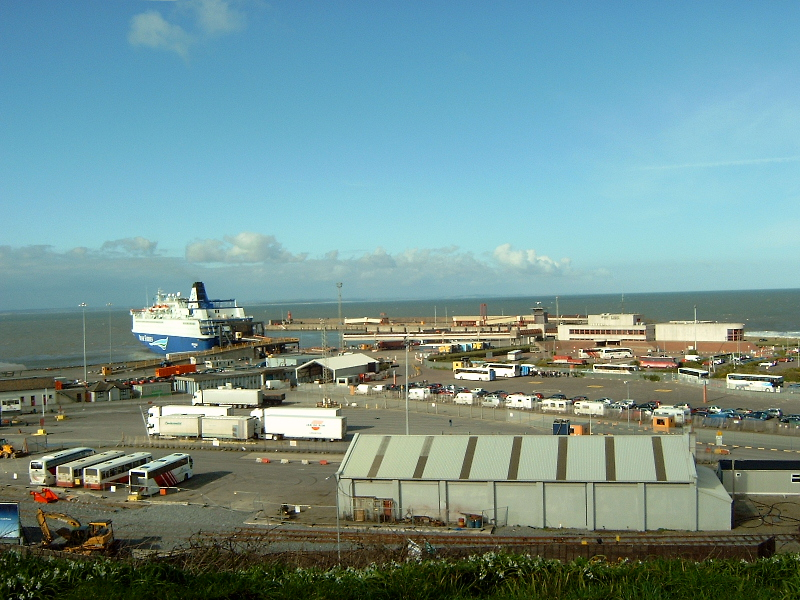 Rosslare Europort Harbour, with the 'Oscar Wilde' Irish Ferries ship in the dock; March 2008